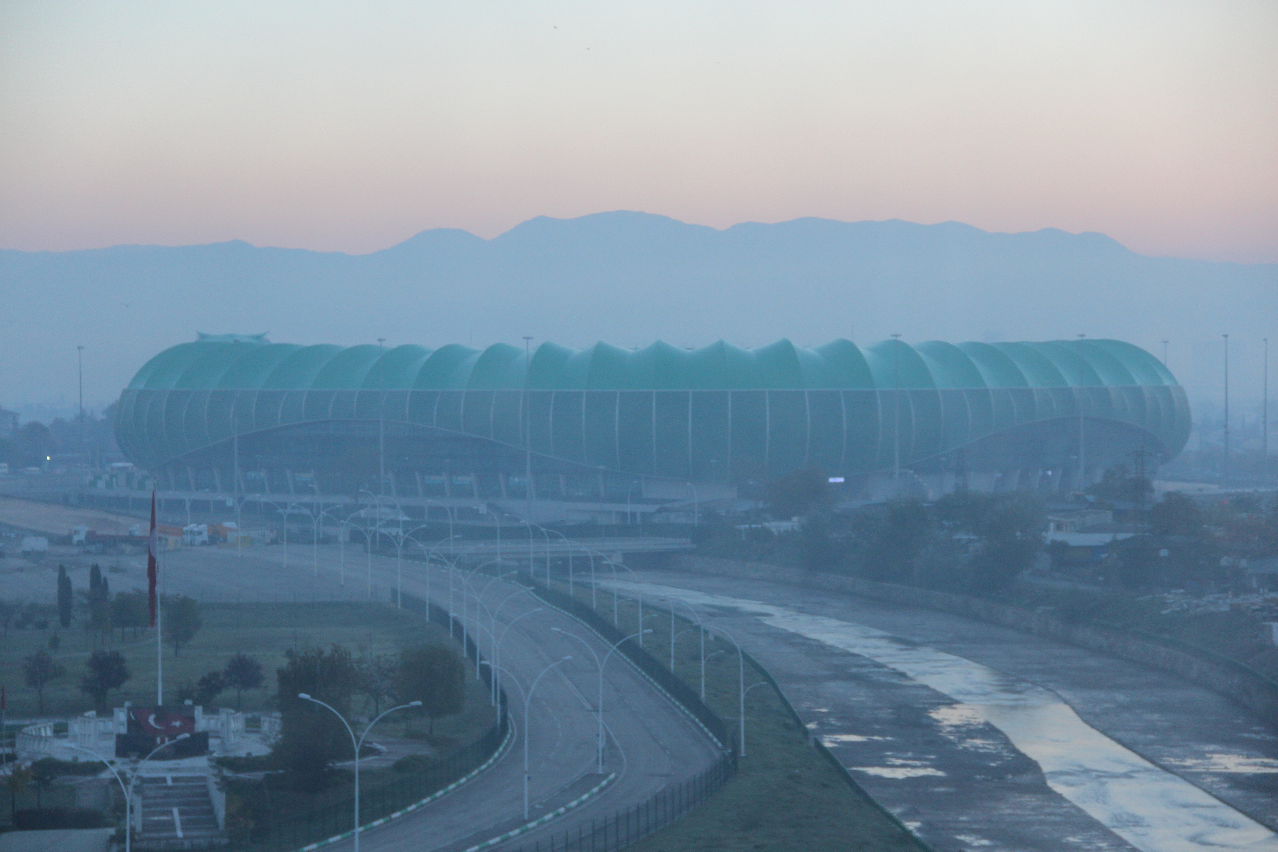 Bursa Büyükşehir Belediye Stadium 20181026